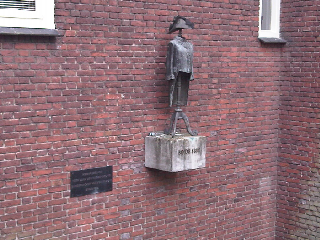 Bronzen beeld van Peer van den Muggenheuvel